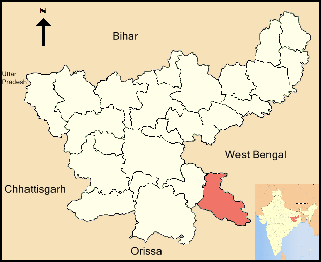 A locator map of East Singhbhum district, Jharkhand state